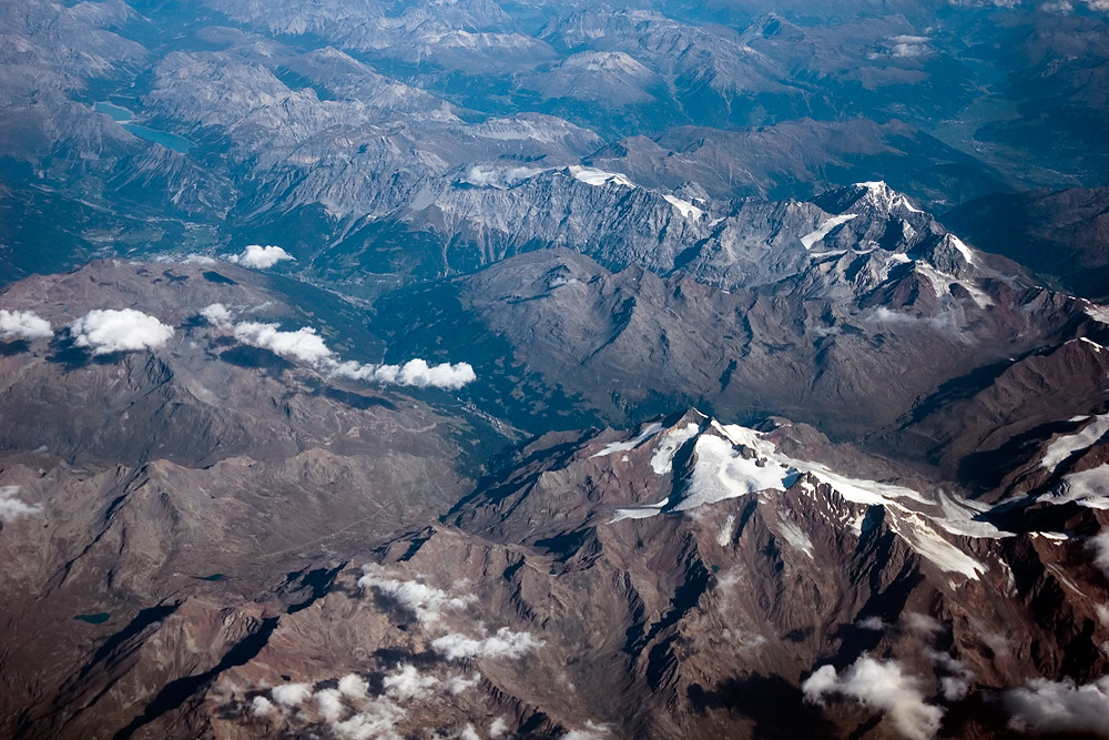 Bormio and Valfurva at 10000m